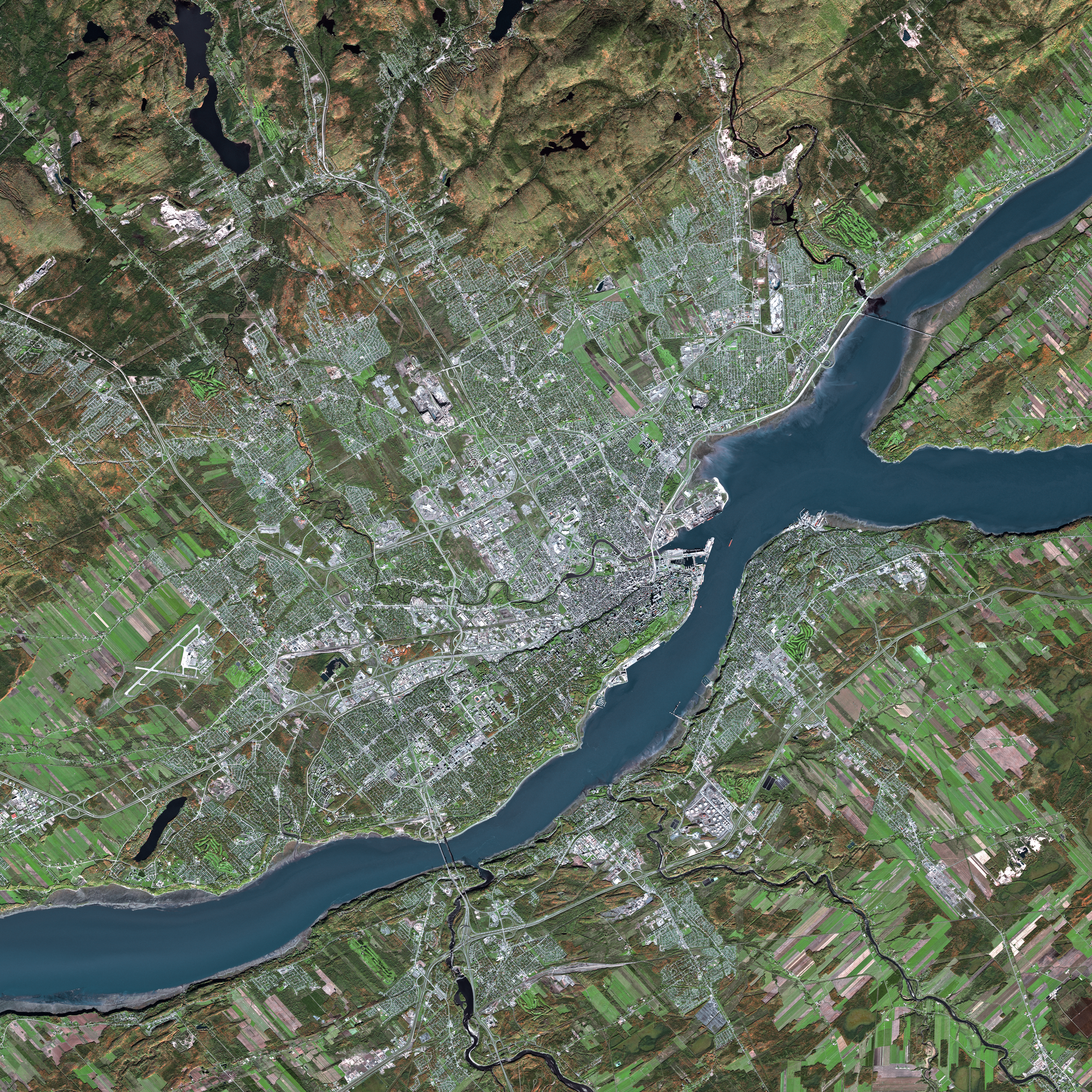 Quebec by SPOT Satellite